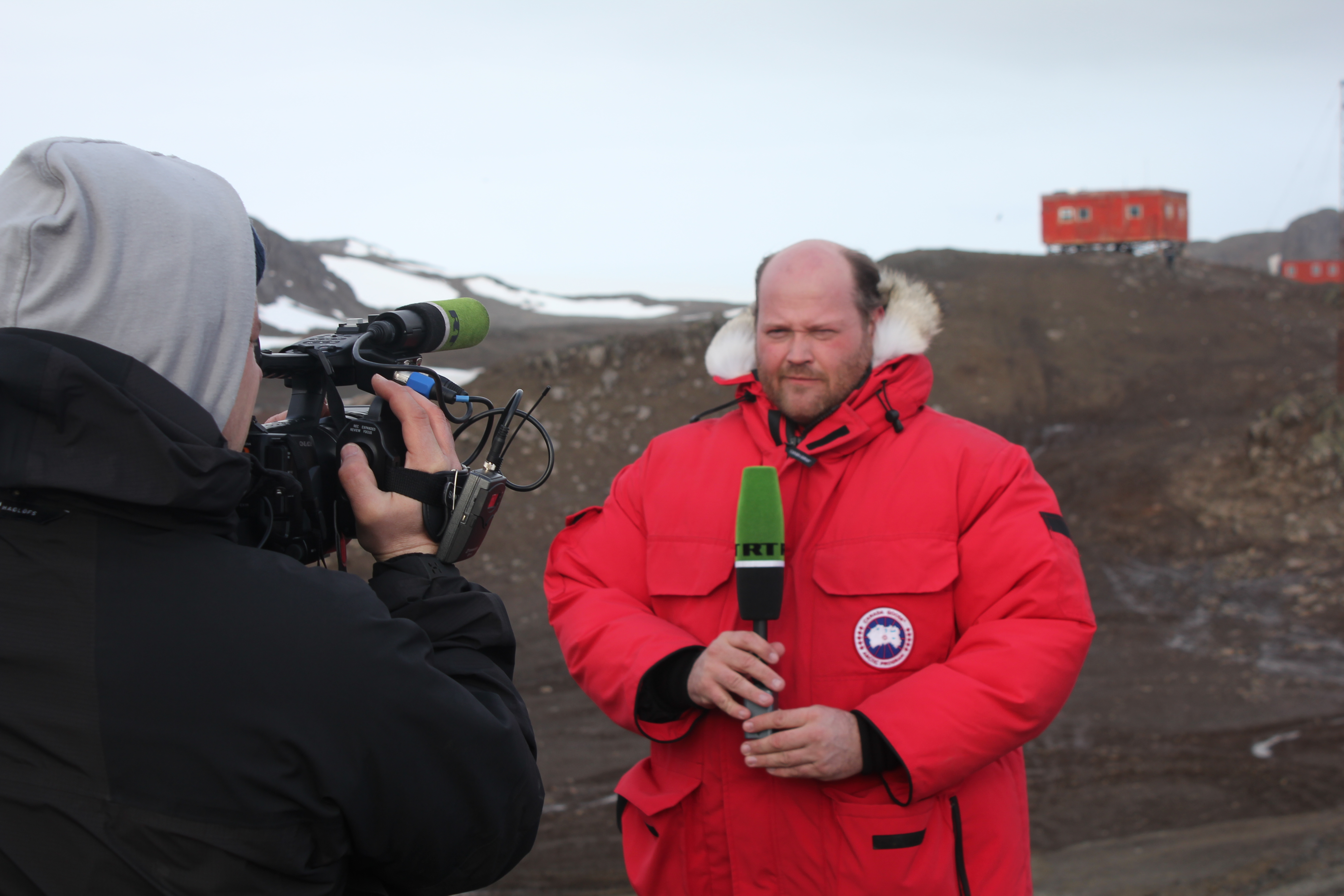 Photograph of Sean Michael Thomas, anchor and correspondent for RT (Russia Today) reporting in Antarctica.